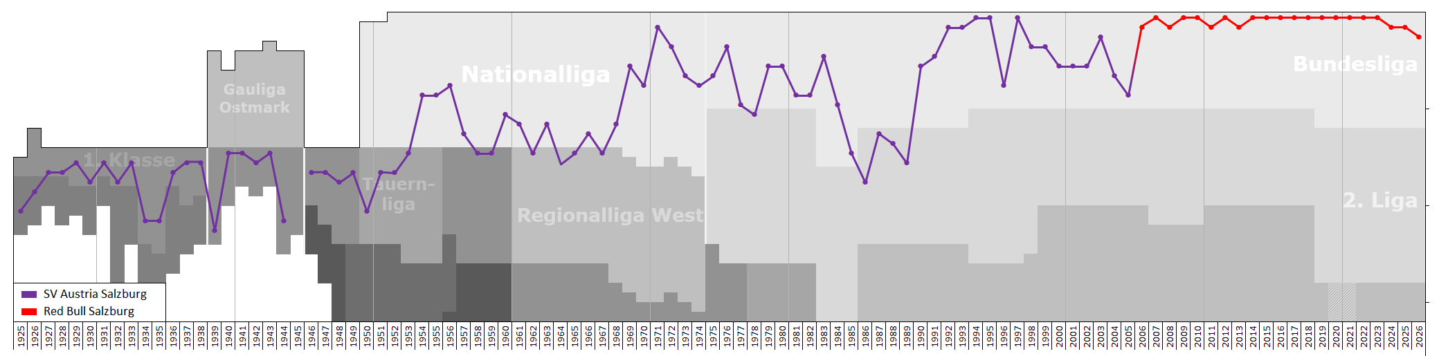 Chart of end-season table positions of Red Bull Salzburg in the Austrian football league system. Data source: RSSSF, , regiowiki.at, sfv.at, wikipedia